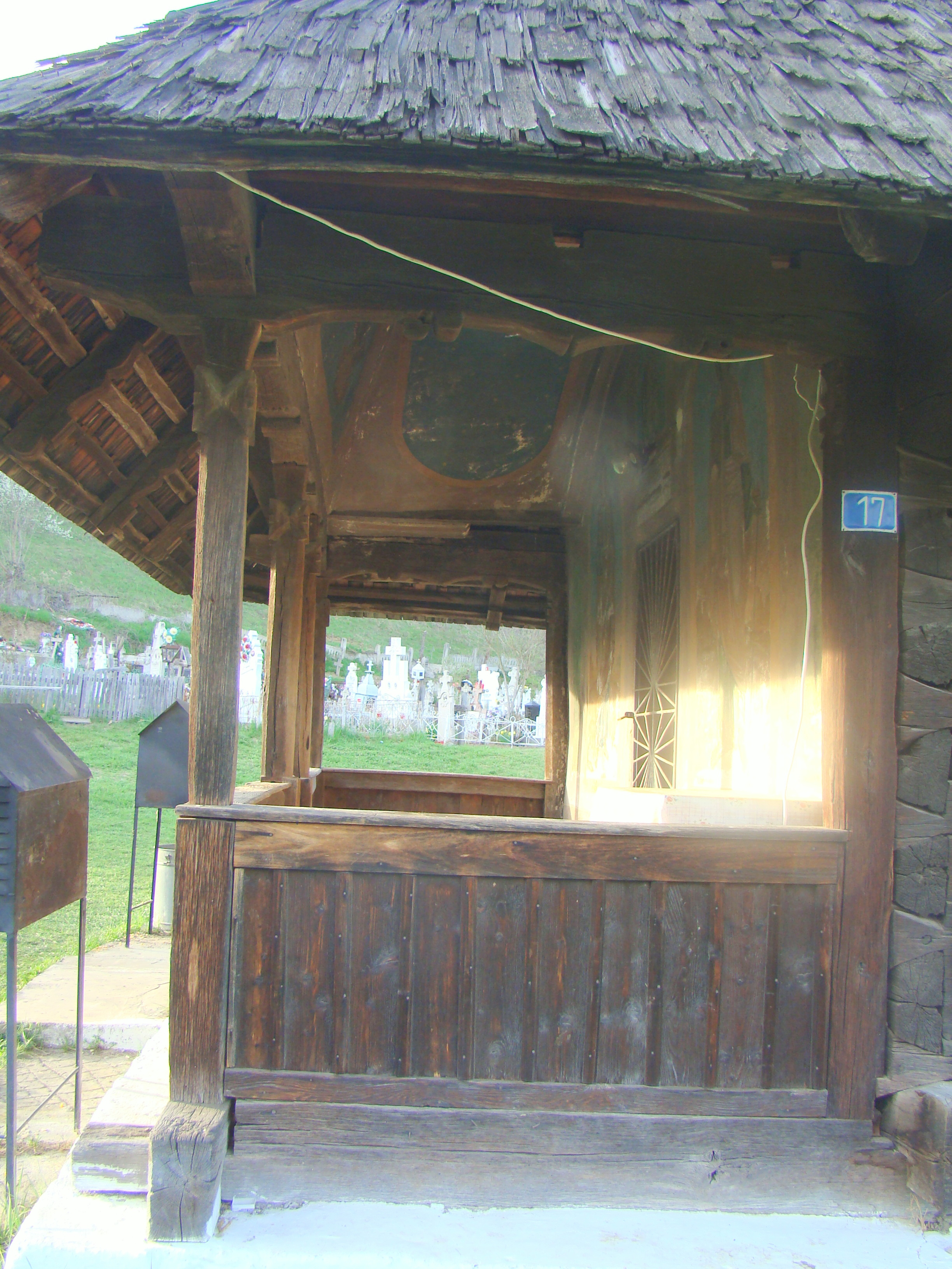 Wooden church in Artanu, Gorj county, Romania